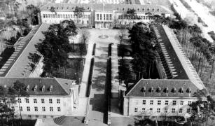 US Army Berlin Brigade HQ (Clay Compound)